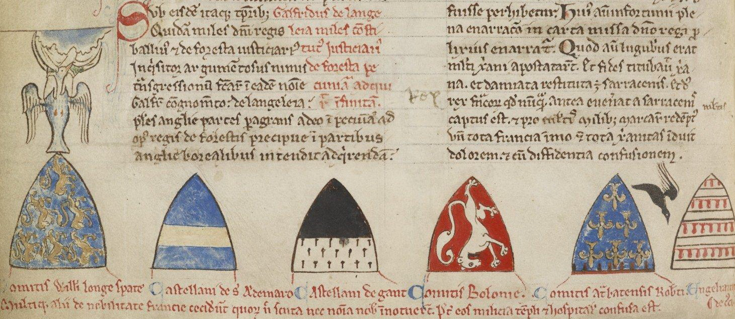 Detail of a marginal drawing of six inverted shields alluding to the defeat of Christians, bearing the arms of William de Longespée with two hands above issuing from a cloud and holding a dove, William, castellain of Saint-Omer, castellain of Ghent, count of Boulogne, Robert, count of Artois, with a black bird symbolizing his soul, and Raul de Coucy, identified as Enguerrand.